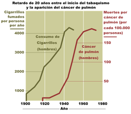 Correlación entre el cáncer de pulmón y el inicio del tabaquismo